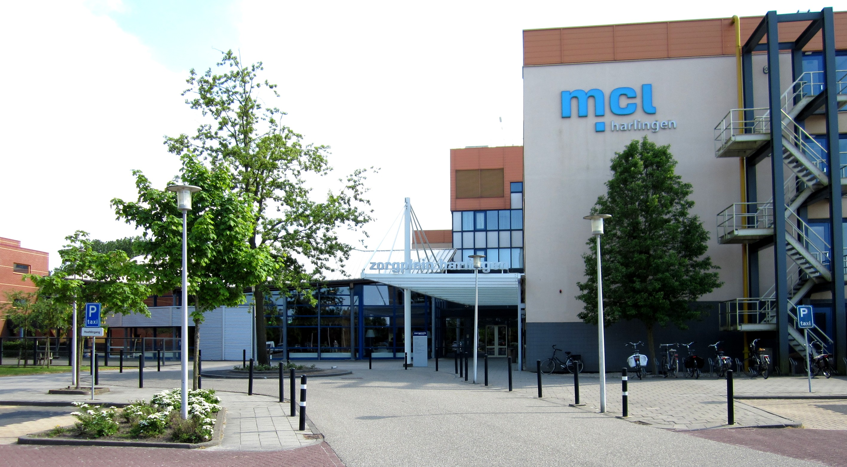 Main entrance (white doors, middle of photograph) of MCL Harlingen (Dutch) / MCL Harns (West Frisian), a hospital in Harlingen/Harns, Friesland, the Netherlands. Photograph taken 23 May 2018.